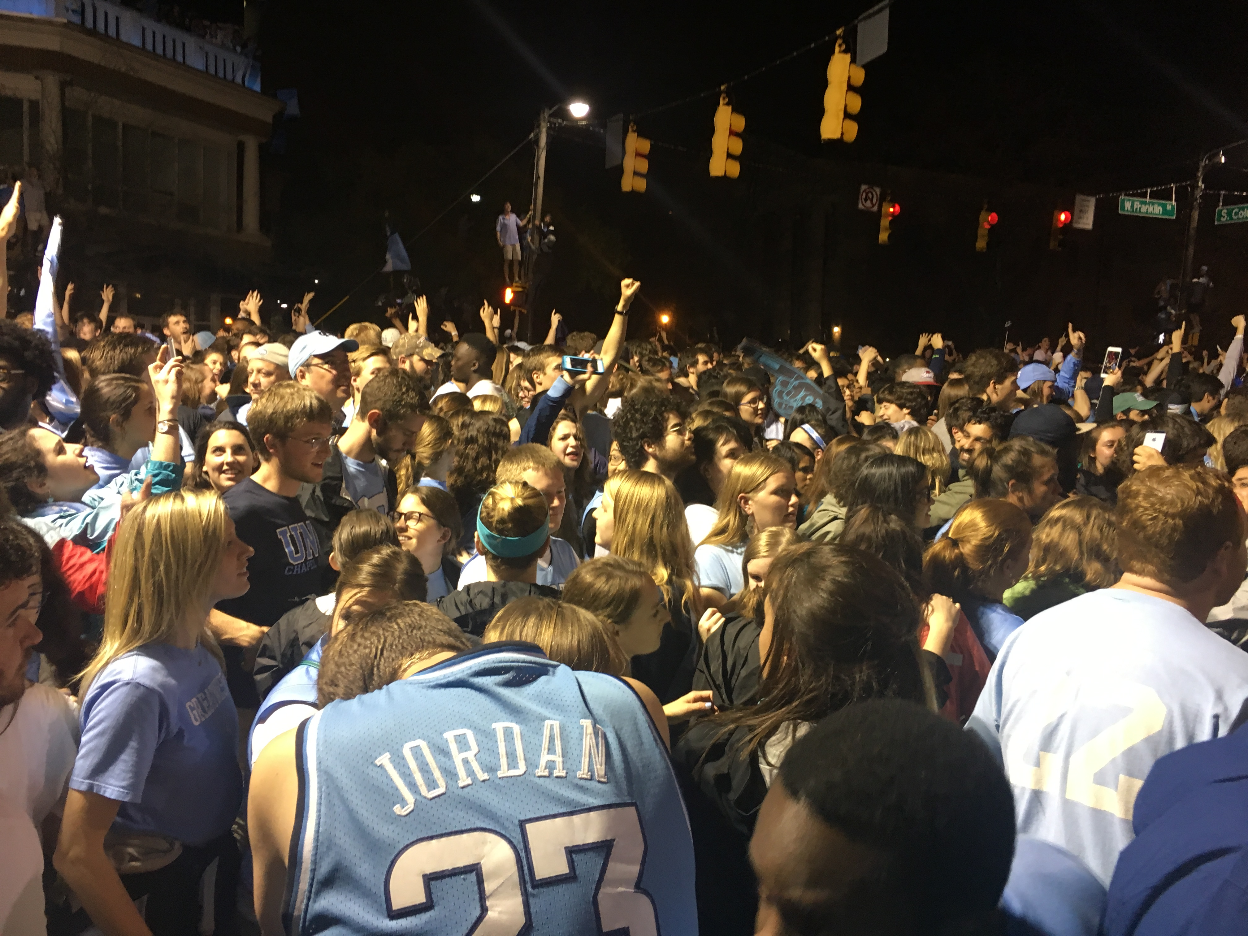 The crowd at the intersection of Franklin Street and North Columbia Street in Chapel Hill, North Carolina after the UNC-Chapel Hill victory over Gonzaga in the 2017 NCAA Division I Men's Basketball Championship.